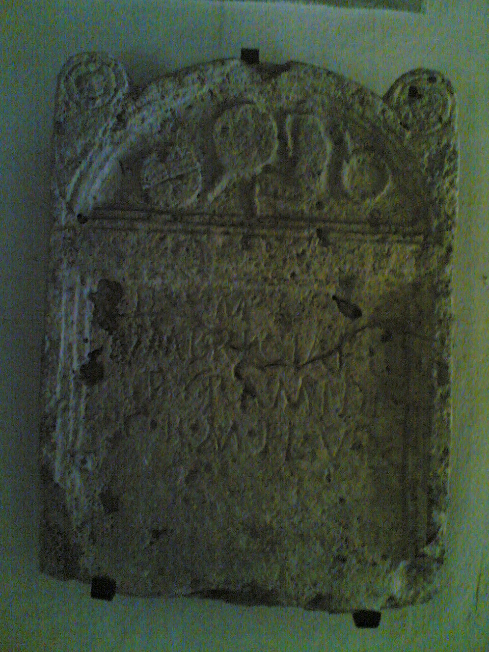 Tombstone exhibited in San Pietro Ad Mensulas church, in La Pieve, Sinalunga (Italy)